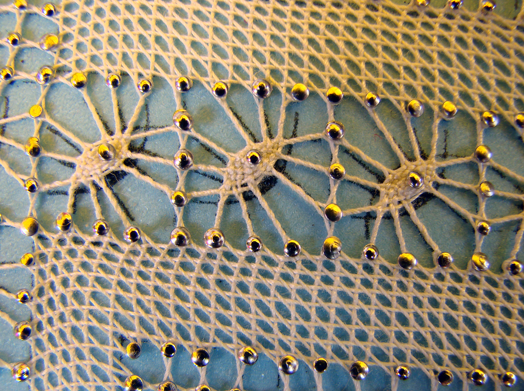 Bobbin lace making.